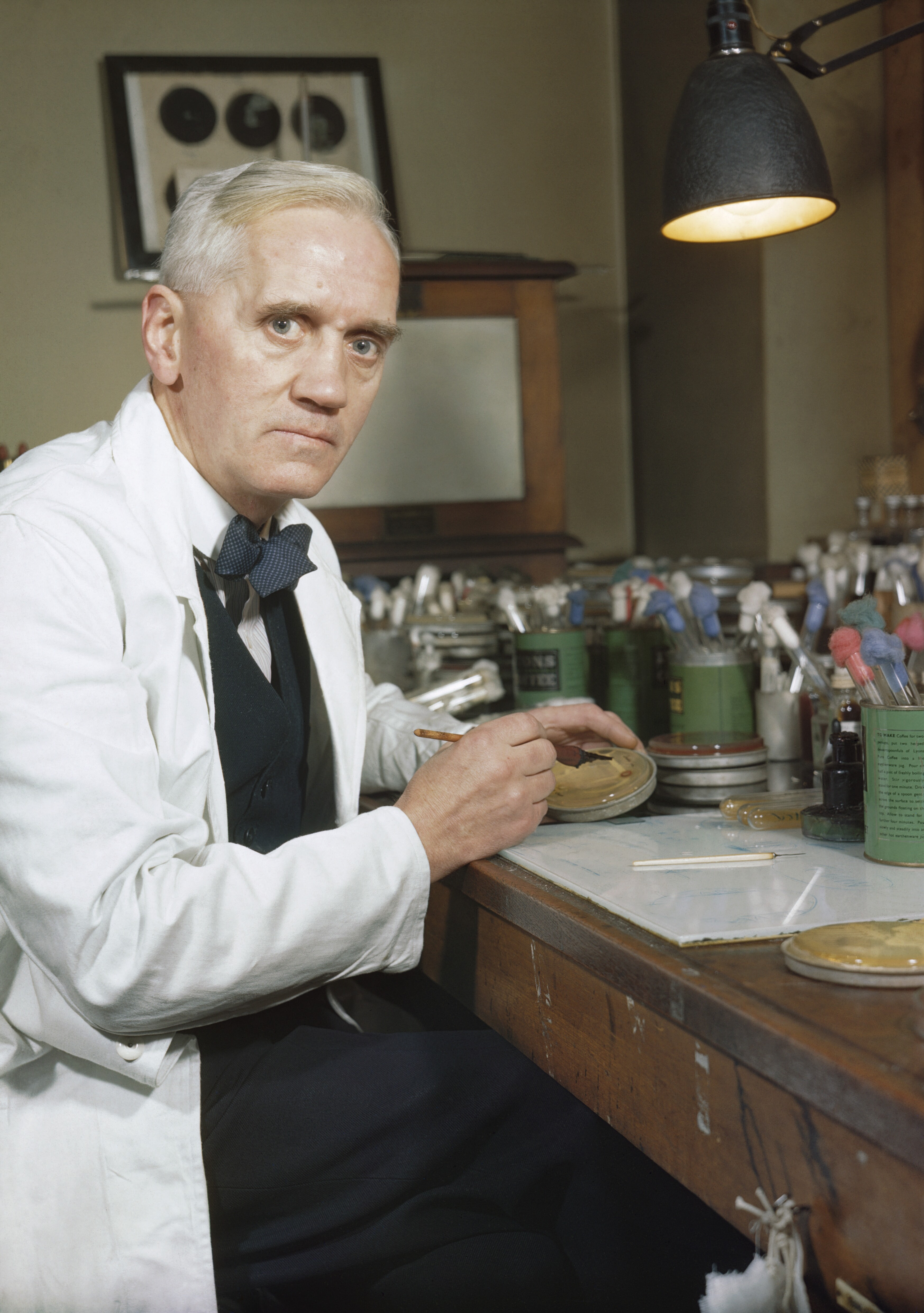 Synthetic Production of Penicillin Professor Alexander Fleming, holder of the Chair of Bacteriology at London University, who first discovered the mould Penicillin Notatum. Here in his laboratory at St Mary's, Paddington, London (1943).